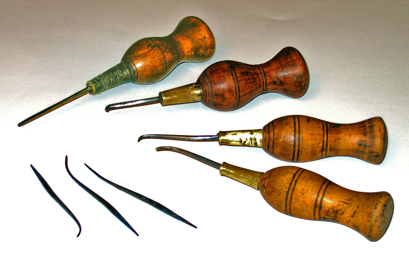 Shoemaking awls